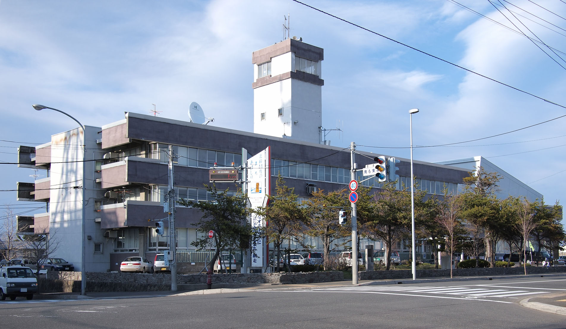 Abashiri city hall, Abashiri, Hokkaido, Japan